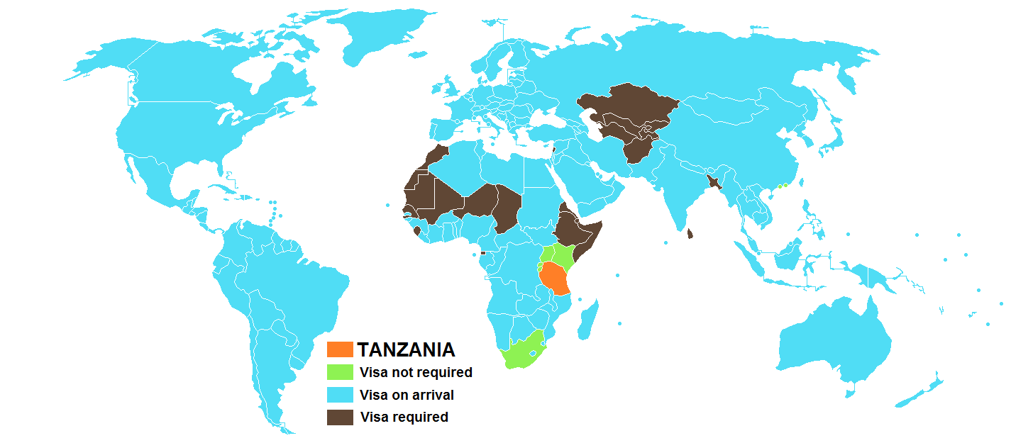 Alternative visa policy of Tanzania